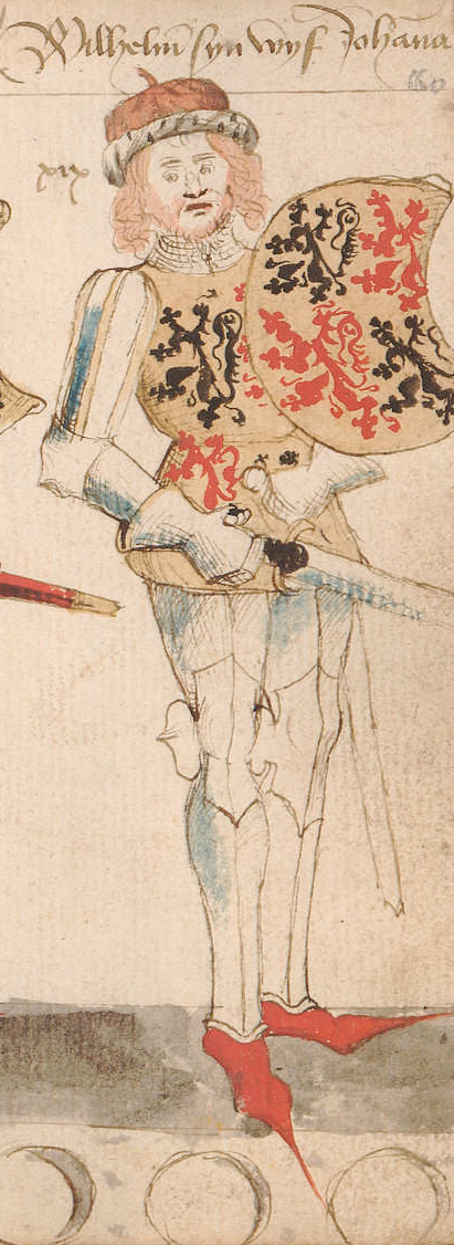 William IV, Count of Holland